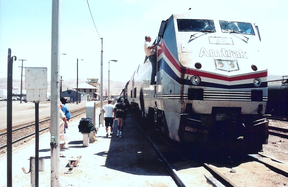 Amtrak GE Genesis P42DC locomotive #97 and two other Amtrak locomotives pause at Sparks (Amtrak station), just east of Reno, Nevada, with a late running westbound California Zephyr. The station has since been closed to passenger traffic.Scan of a colour print created from an APS negative.